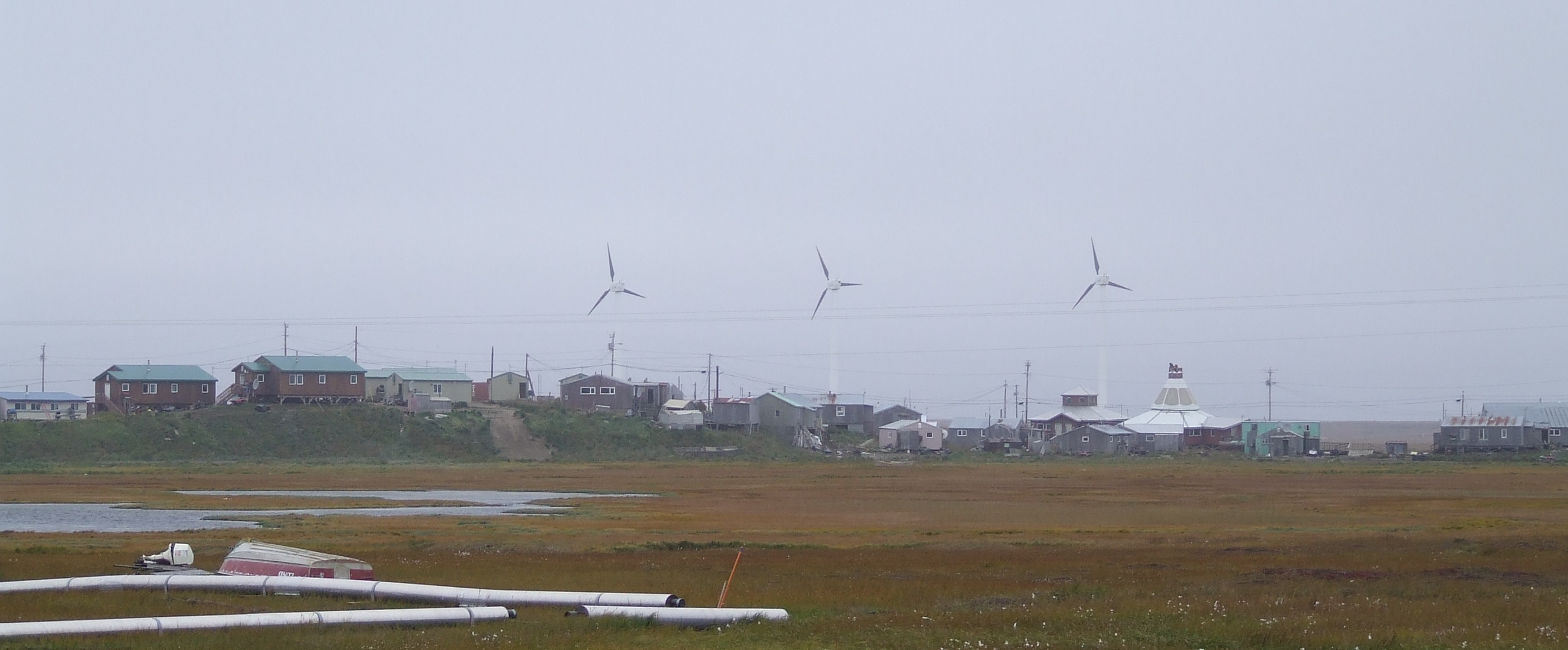 Beautiful Downtown Hooper Bay